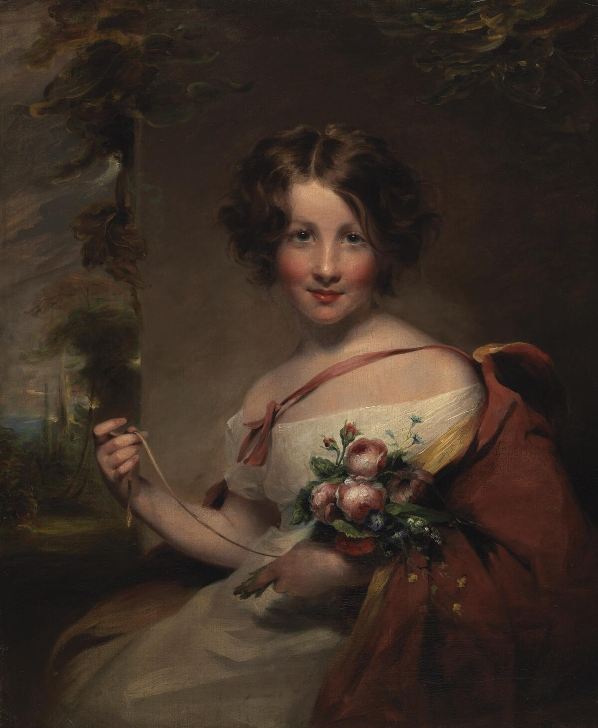 A painting from the Framed Works of Art collection at the National Library of wales.